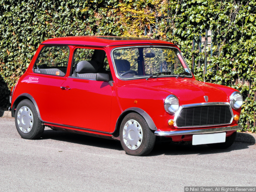 Photograph of a 998cc Rover Mini.